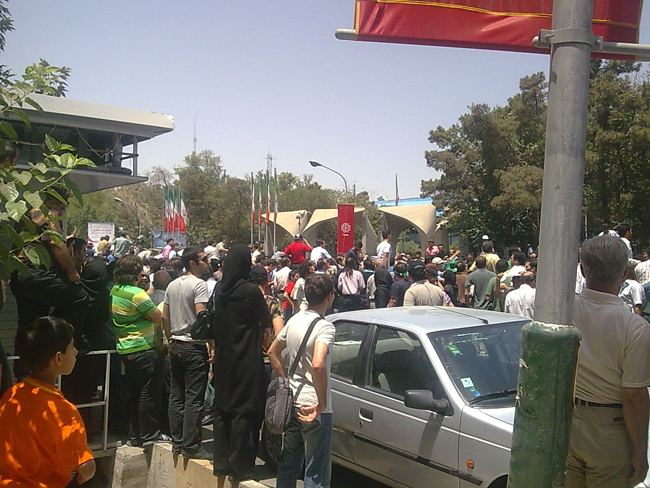 Protest of 17 July in Tehran near Tehran University